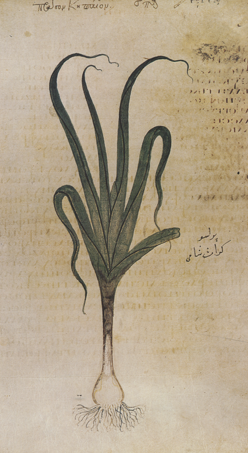 Allium ampeloprasum folio 278r